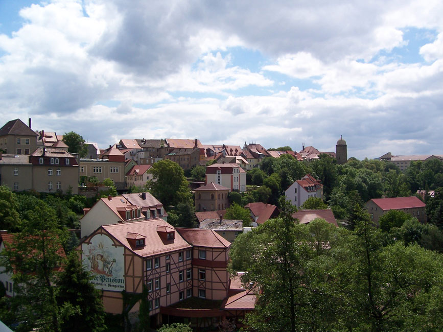 The old town of Bautzen in Saxony, Germany, seen from the Peace bridge in south-east direction.